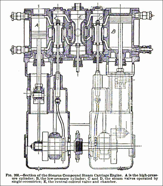 Stearns Steam engine detail